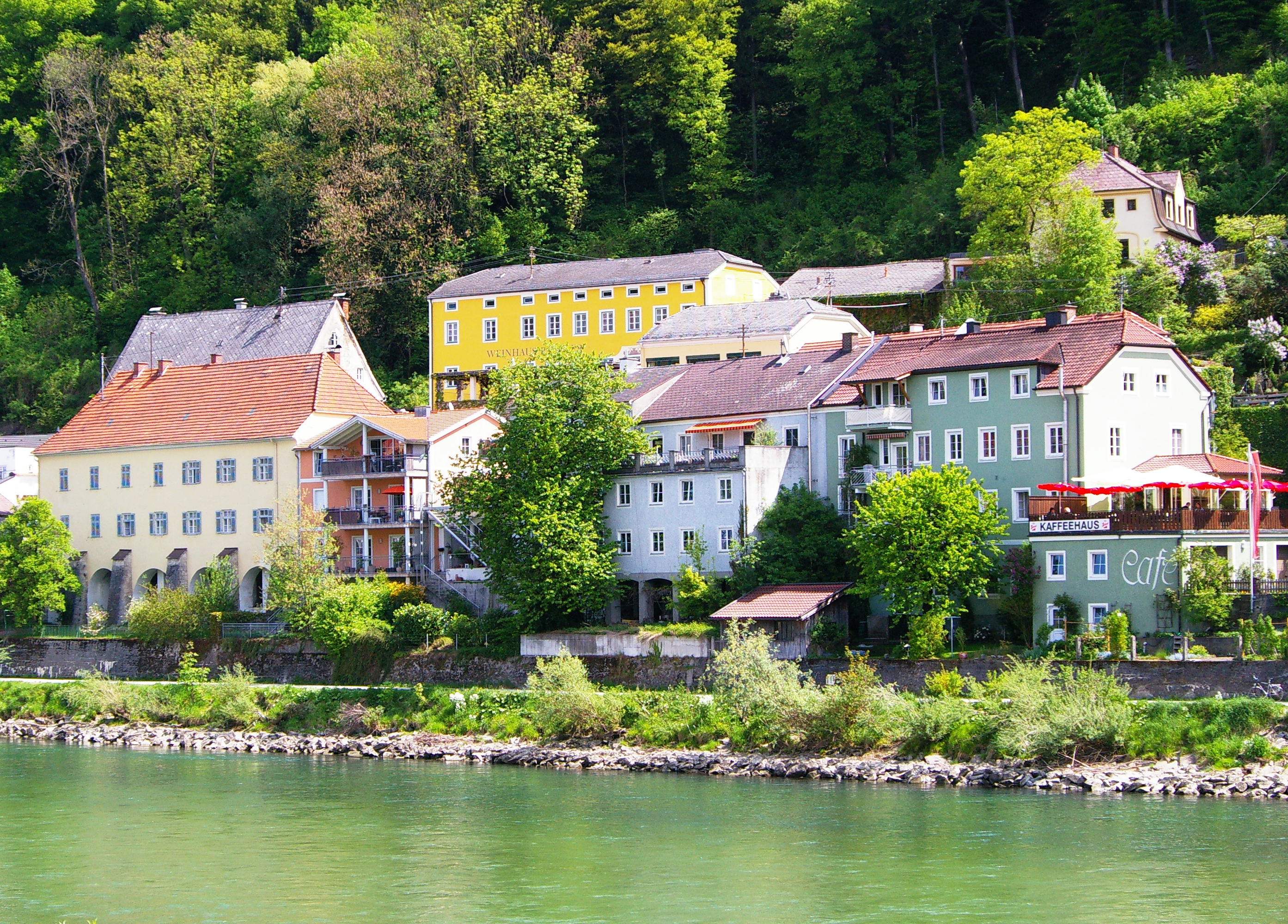 Ach village on Burghausens opposite Salzach side